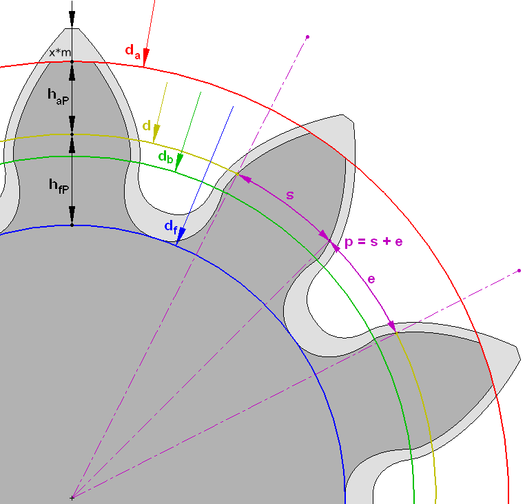 basic nomenclature of involute gears